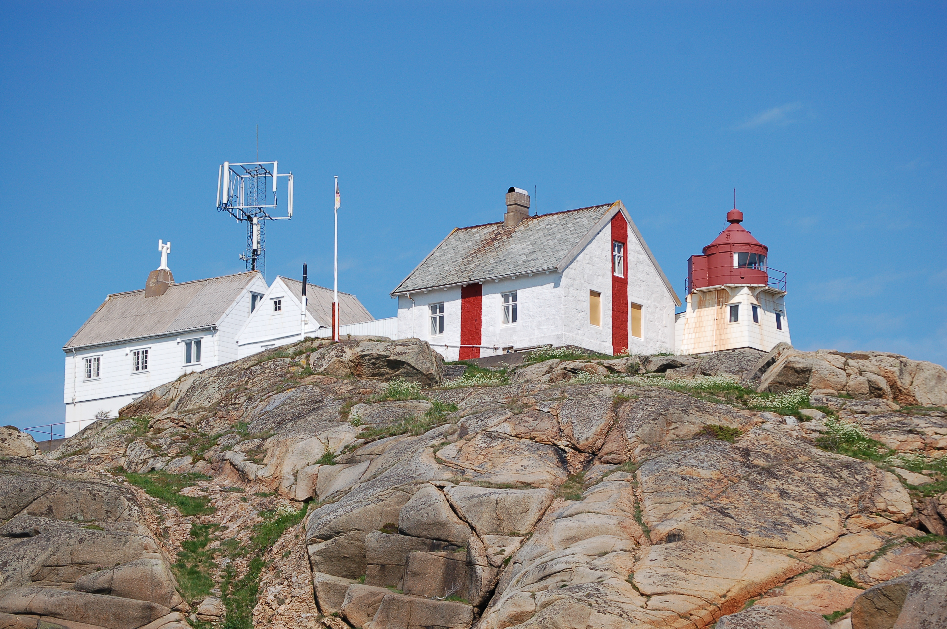 Stavernodden lighthouse, Stavern, Norway